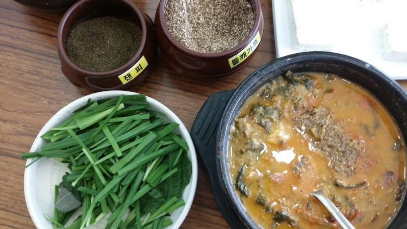 chueotang(pond loach soup) served with chopi powder and deulkkae powder